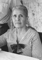 Juan and Chata Sada at their Boquillas, Texas resturaunt, 1936.